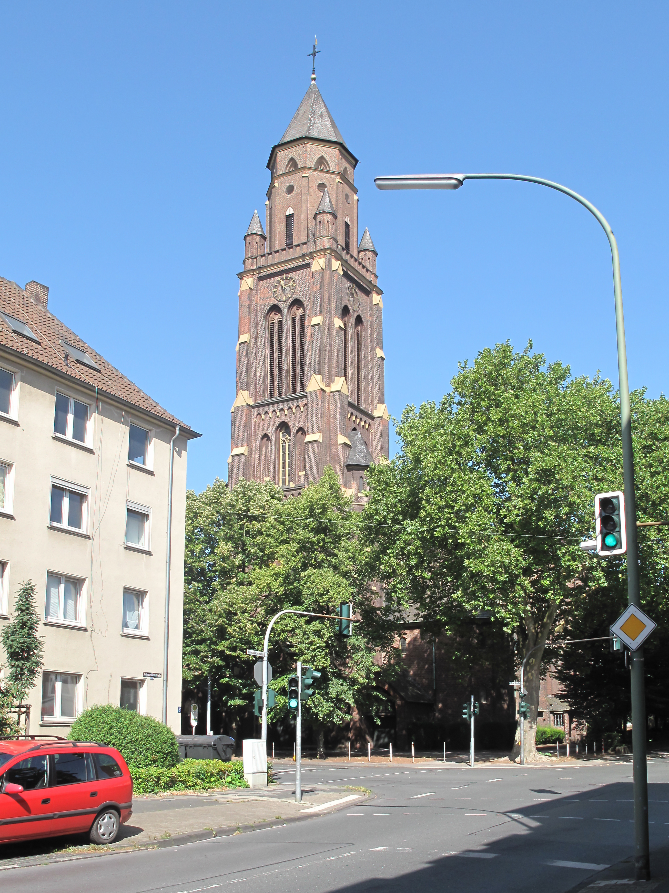 Bulmke Hüllen, church: die Bulmker Kirche